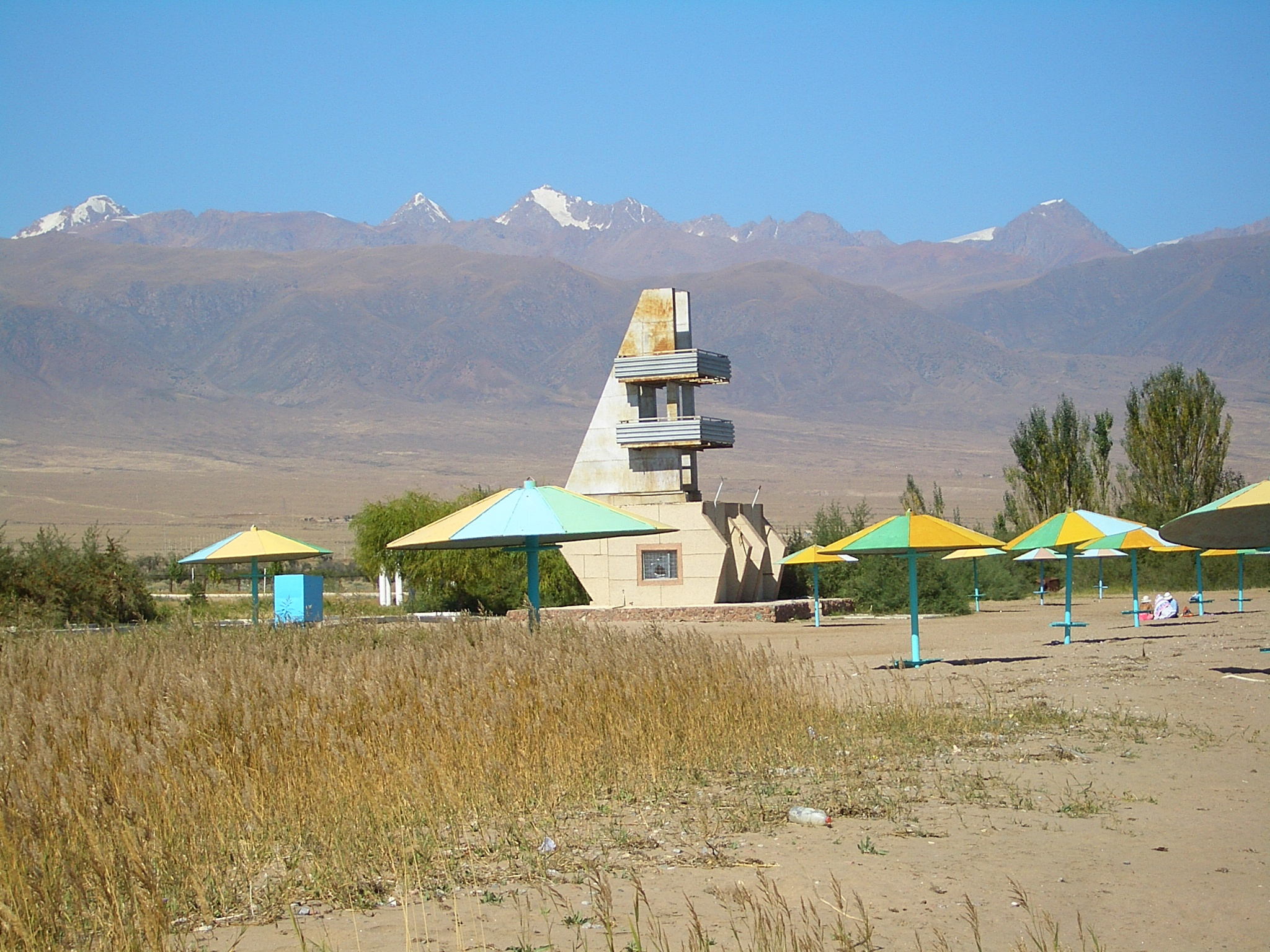 A beach, with beach umbrellas and lifeguard tower, at a possibly abandoned - or underused - resort at Kosh Köl, on Lake Issyk Kul